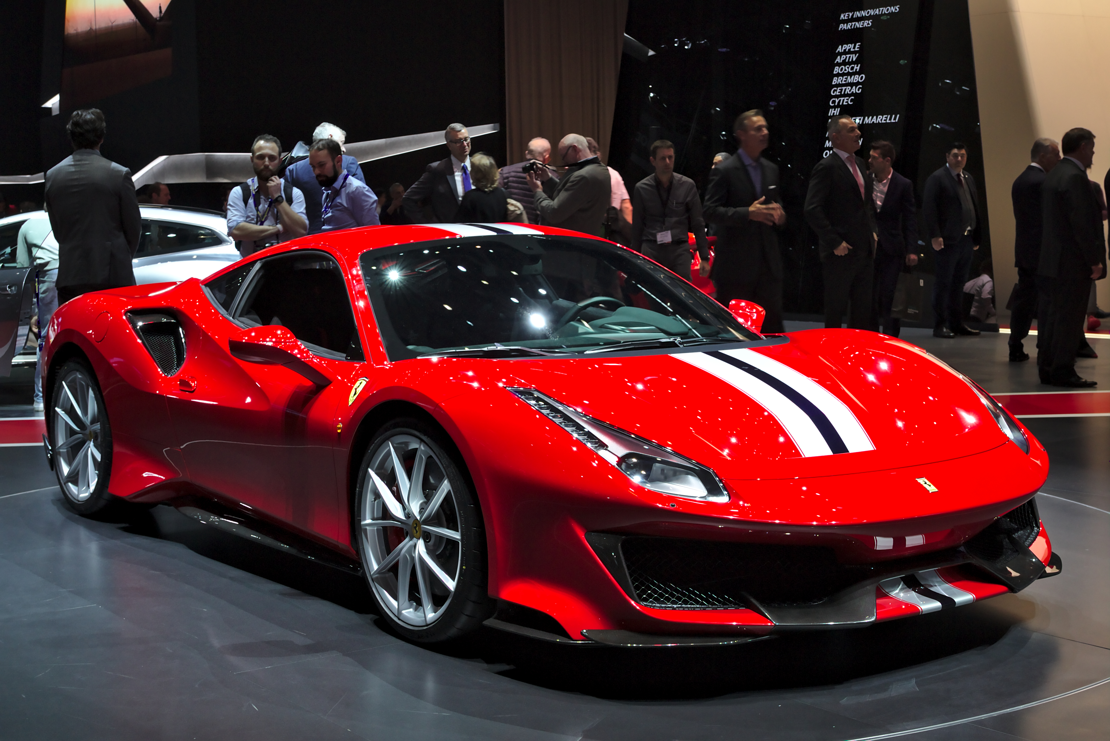 Ferrari 488 Pista at Geneva Motorshow 2018